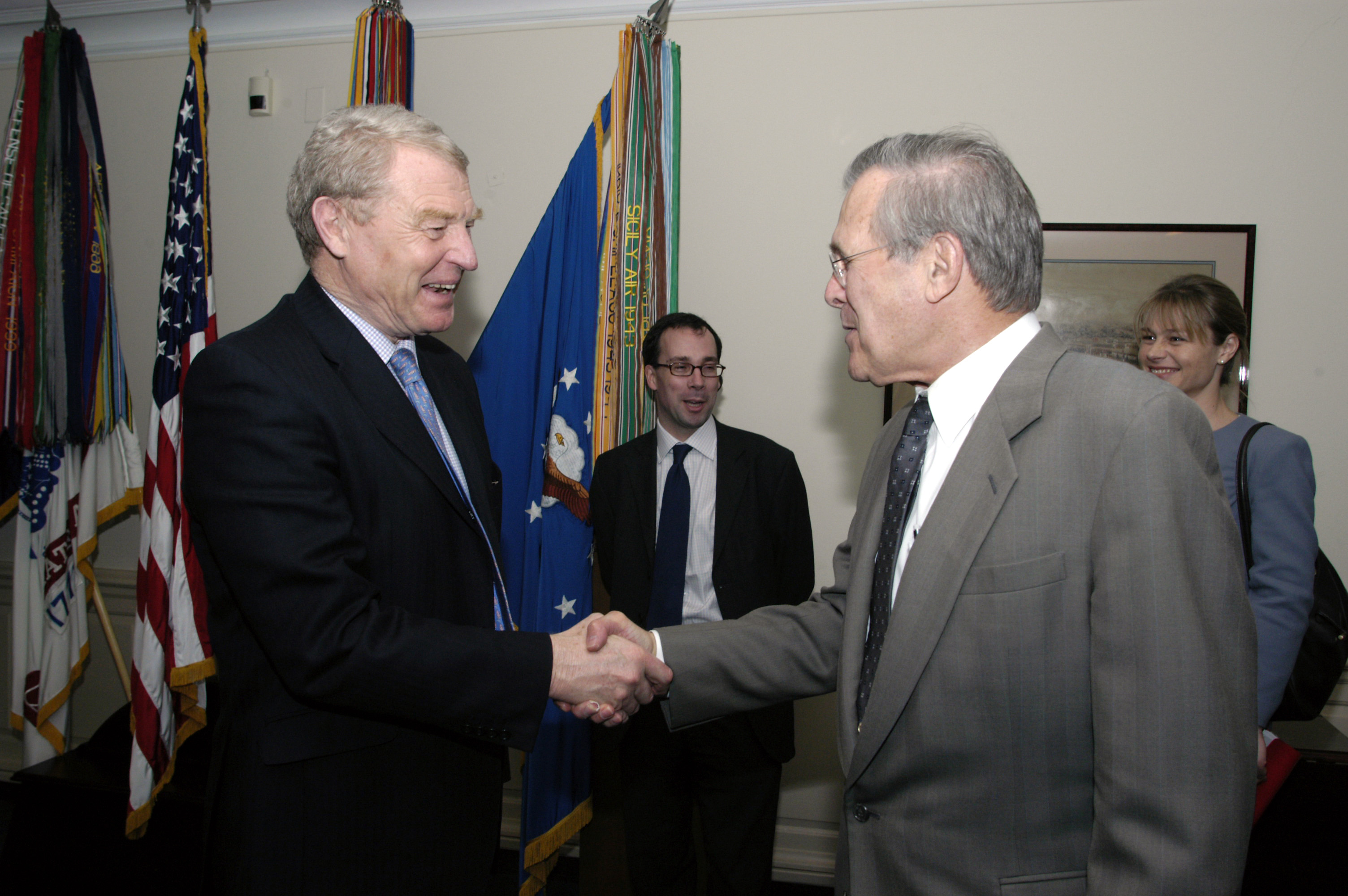 Secretary of Defense Donald H. Rumsfeld greets the High Representative of Bosnia and Herzegovina Lord Paddy Ashdown as he arrives at the Pentagon on March 5, 2004. The two leaders are meeting to discuss defense issues of mutual interest.